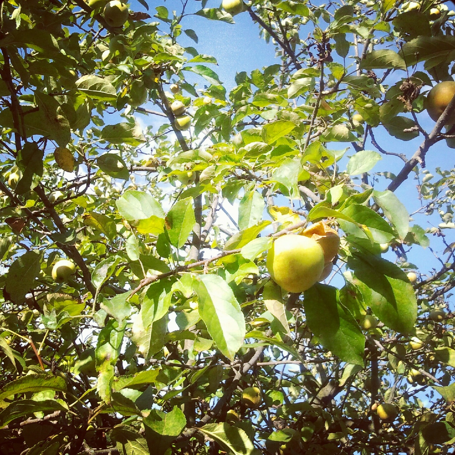 Apple tree (Golden Delicious)